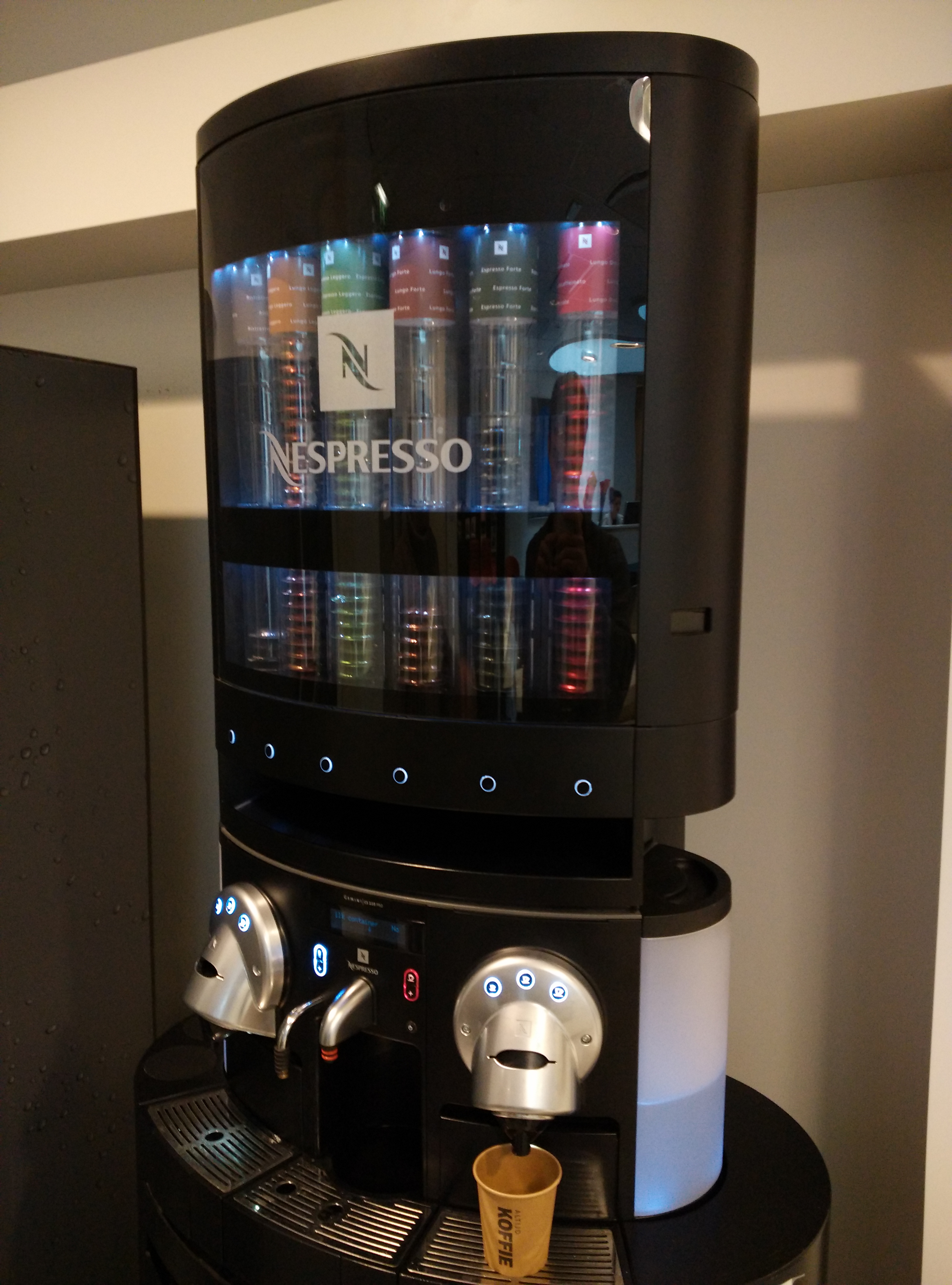 Nespressso Machine and the Nespresso coffee containers